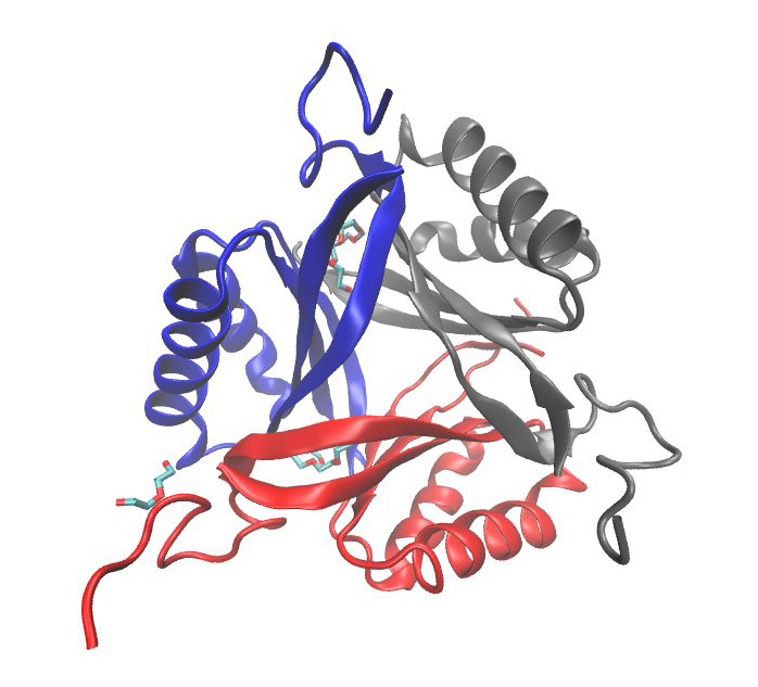 Visual representation of SbtB (PDB: 503P) done with VMD (Visual molecular Dynamics). Each color represents one of the 3 chains from the protein.